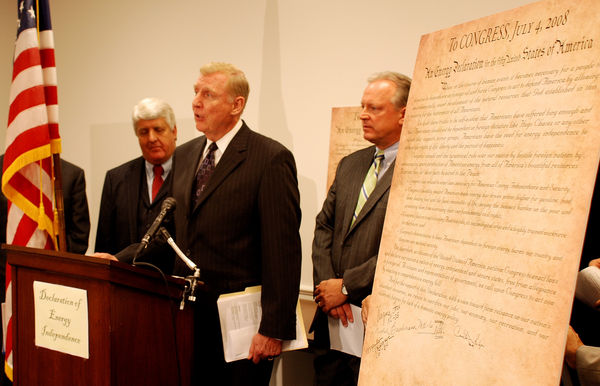 Congressman Burton speaks at the Declaration of American Energy Independence event.